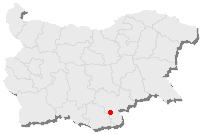 Map of Bulgaria, the red point is the position of Madzharovo.